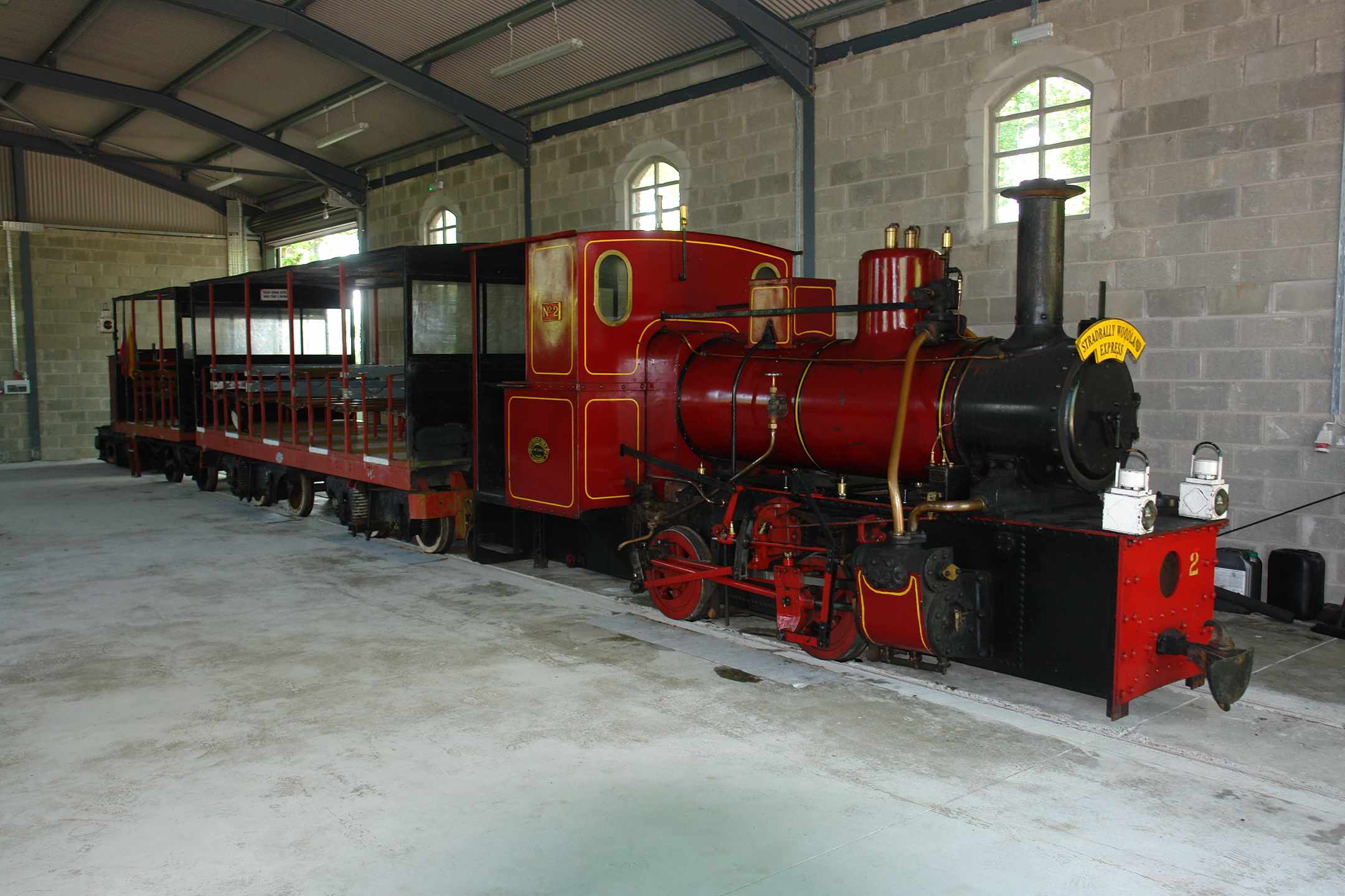 Rolling stock of Stradbally Woodland Railway within the grounds of Stradbally Hall Co. Laois, Ireland